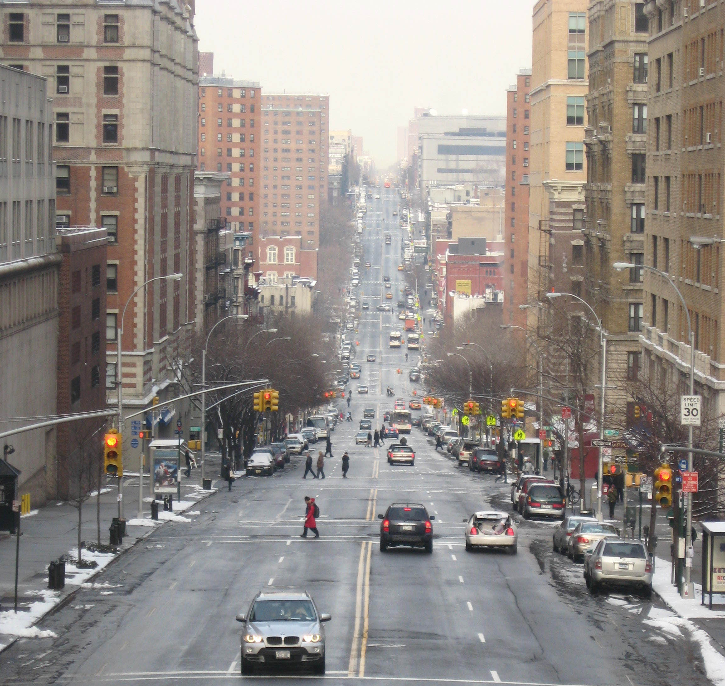 Looking down and north along Amsterdam Avenue from Columbia University footbridge on a cloudy early afternoon. ZIP 10027. See also File:Amsterdam Avenue, north.jpg.